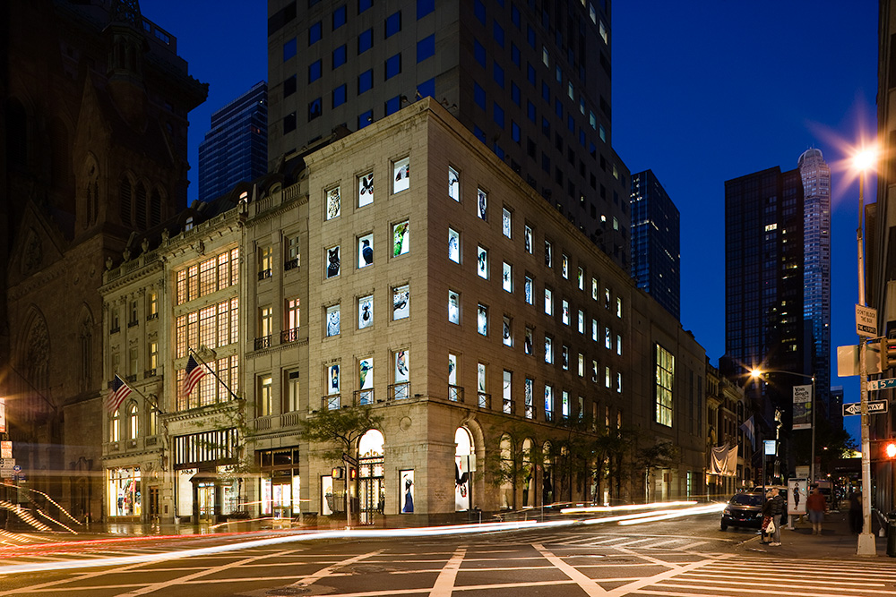 Harry Winston Headquarter, New York, USA